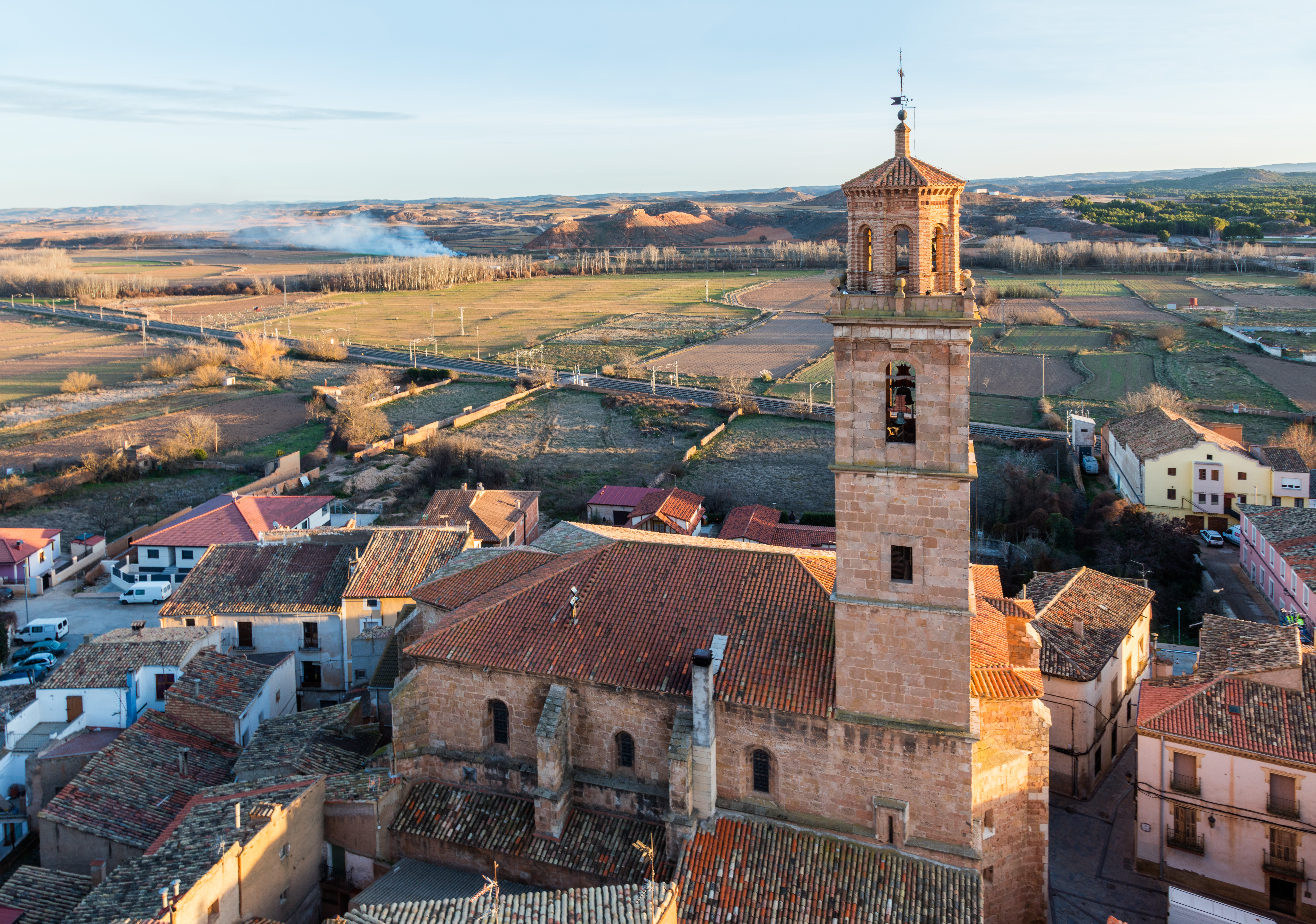 Church of the Assumption, Ariza, Zaragoza, Spain